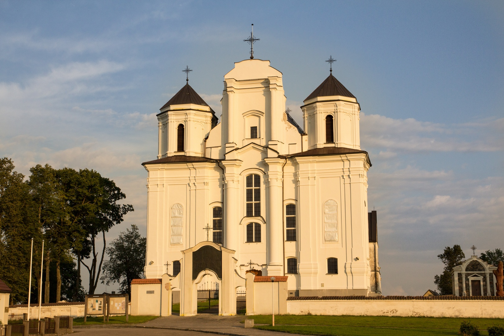 Kražiai Church (2012)